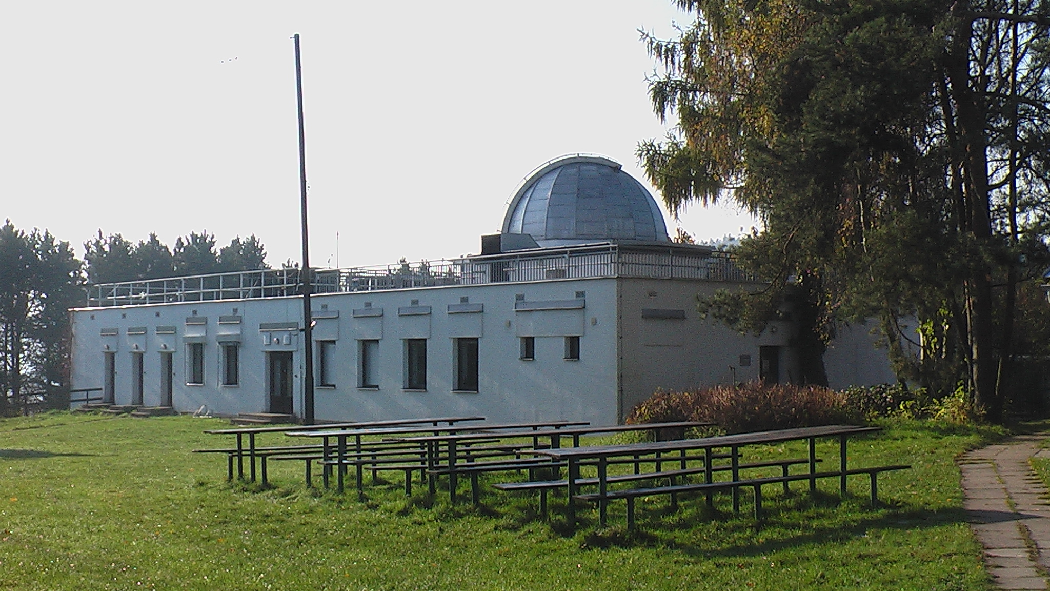 Observatory in Úpice, Trutnov District, Czech Republic